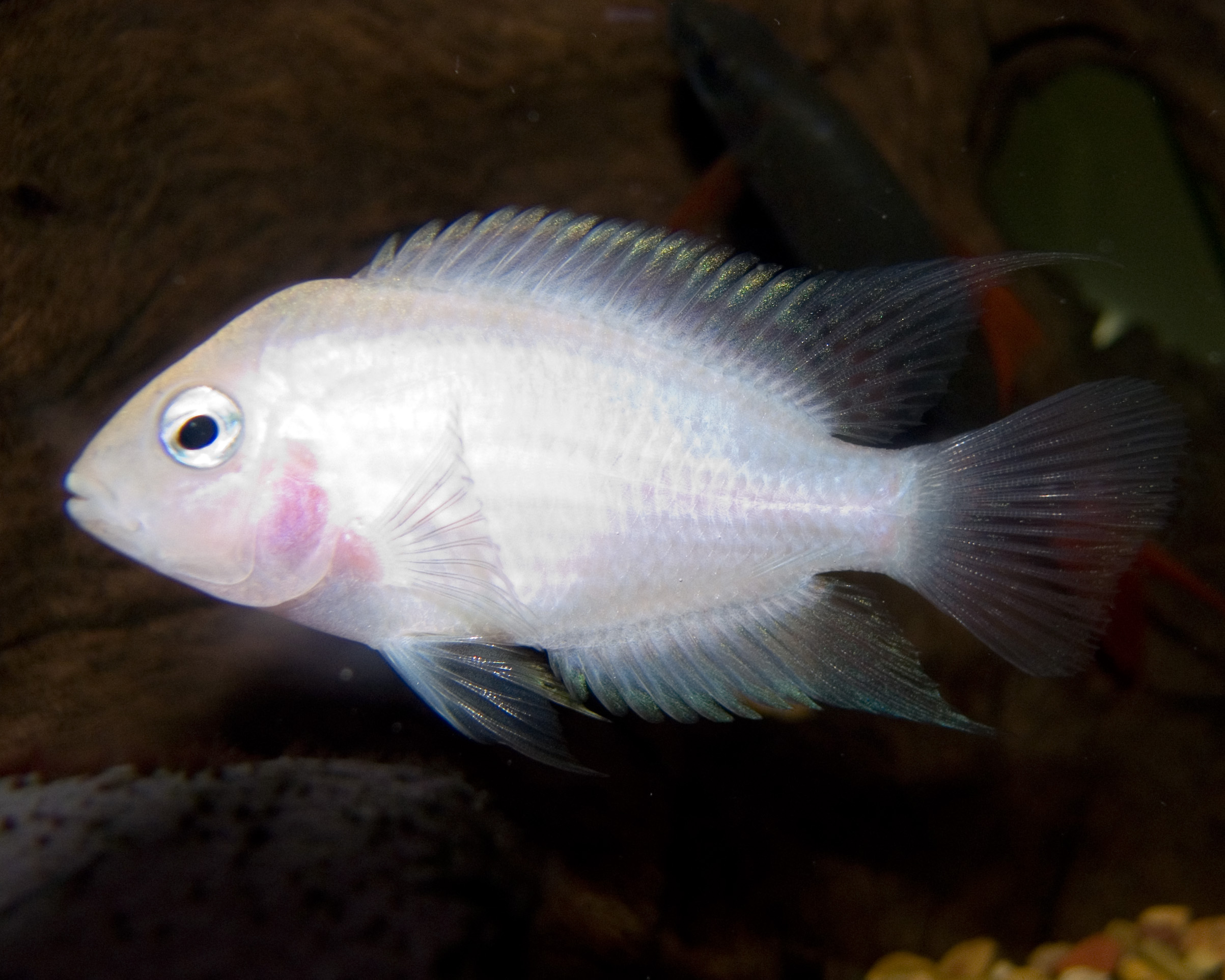 Pink Convict Cichlid Male